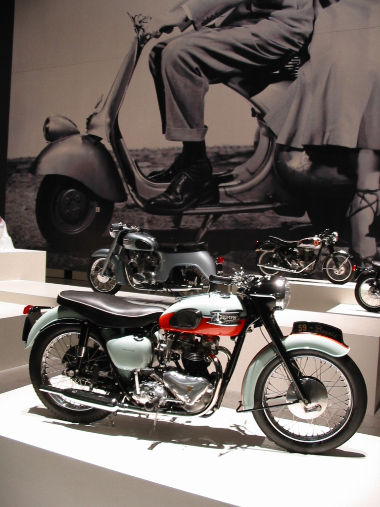 Triumph Bonneville. The Art of the Motorcycle. Las Vegas. In background, a still from Roman Holiday.